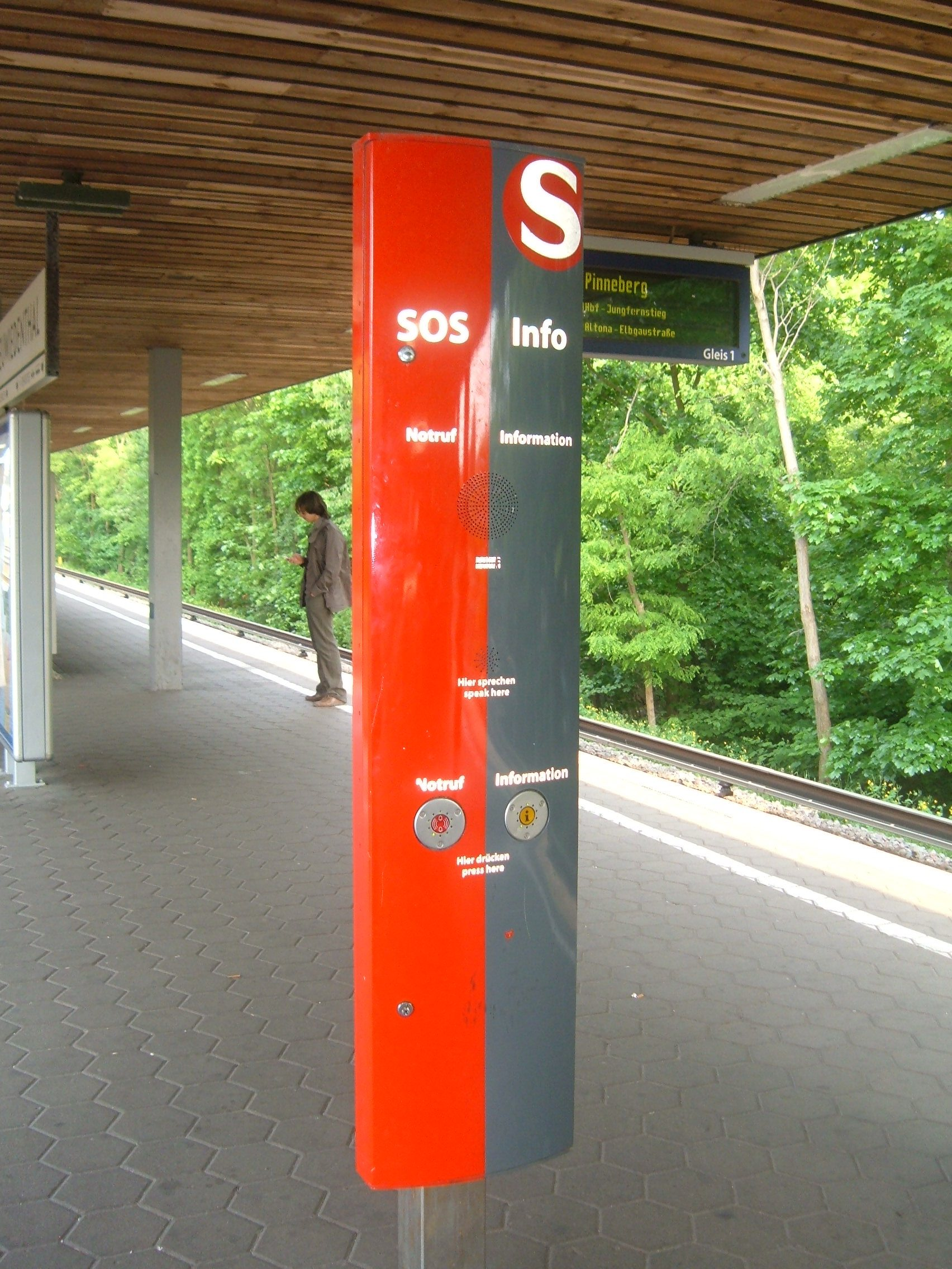 Combined emergency call and information unit at Neuwiedenthal station of Hamburg S-Bahn.